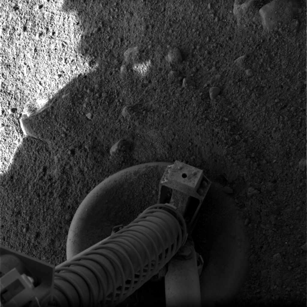 Original description: The Surface Stereo Imager Right on NASA's Phoenix Mars Lander acquired this image at 17:07:41 local solar time at the Phoenix site on the mission's Martian day, or Sol, 0. The camera pointing was elevation -63.3989 [deg] and azimuth 33.6437 [deg] The Phoenix Mission is led by the University of Arizona, Tucson, on behalf of NASA. Project management of the mission is by NASA's Jet Propulsion Laboratory, Pasadena, Calif. Spacecraft development is by Lockheed Martin Space Systems, Denver.